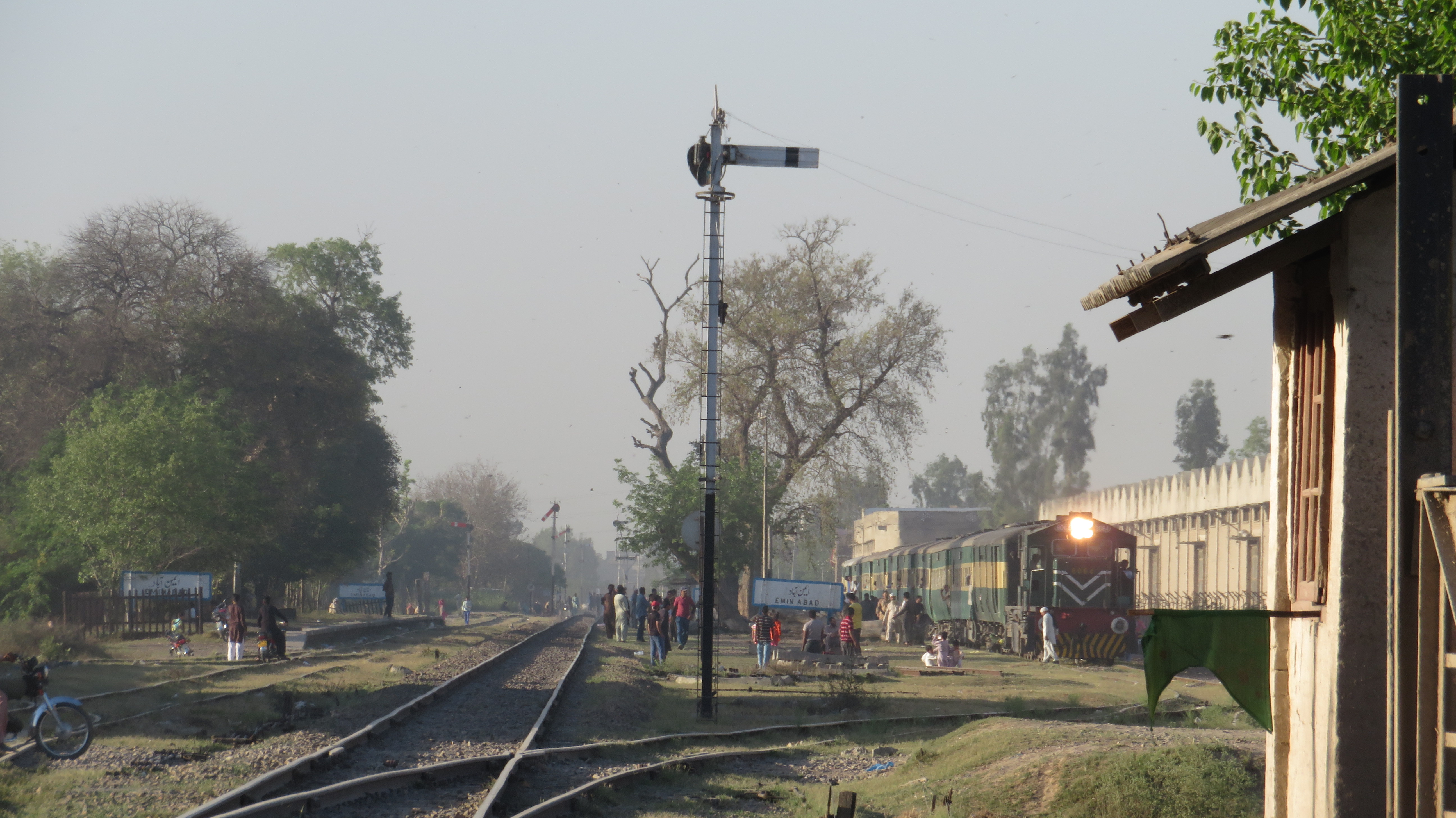 Railway Station, Eminabad, near Gujranwala, Pakistan